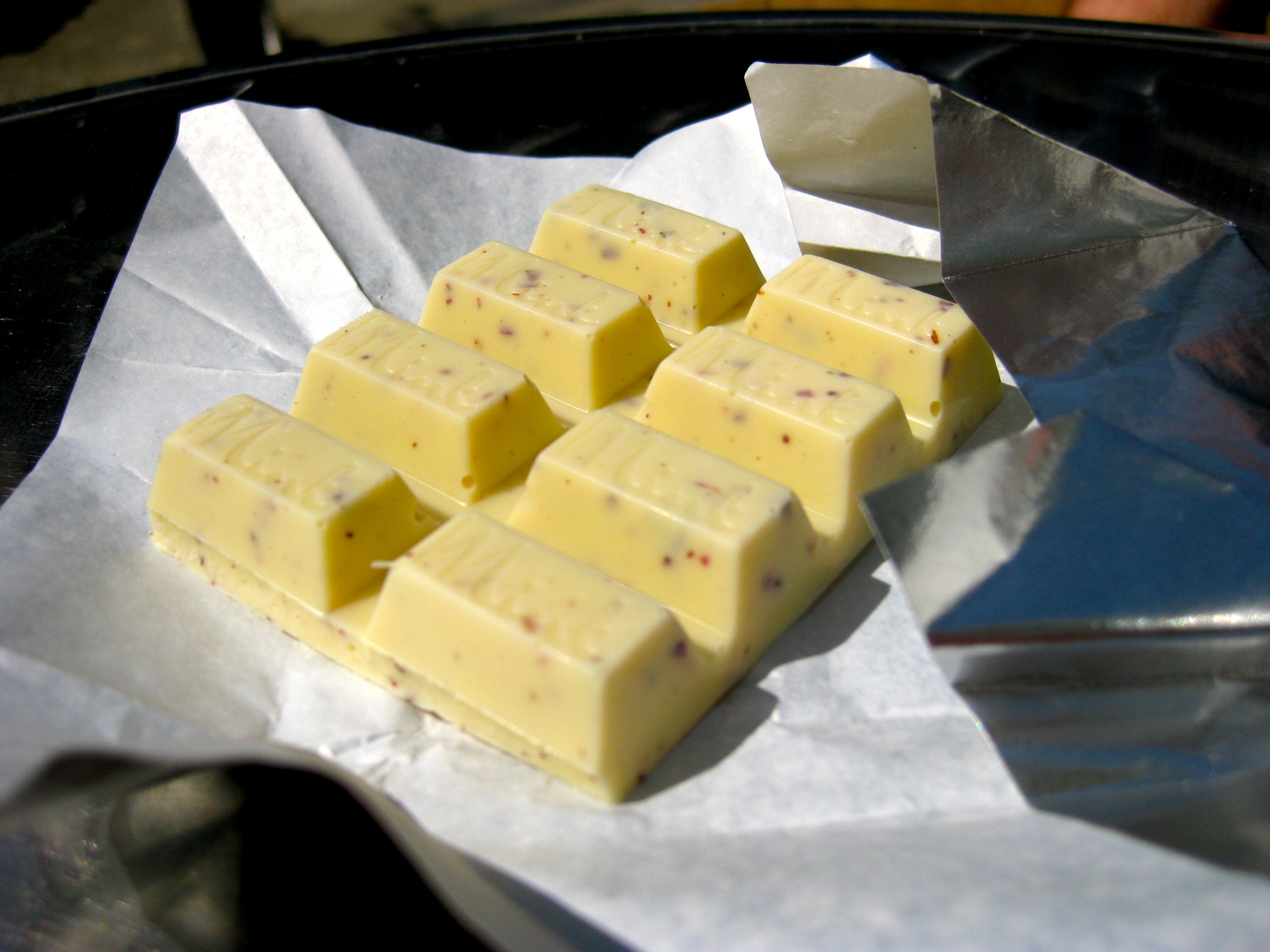 White chocolate and Rose Petals